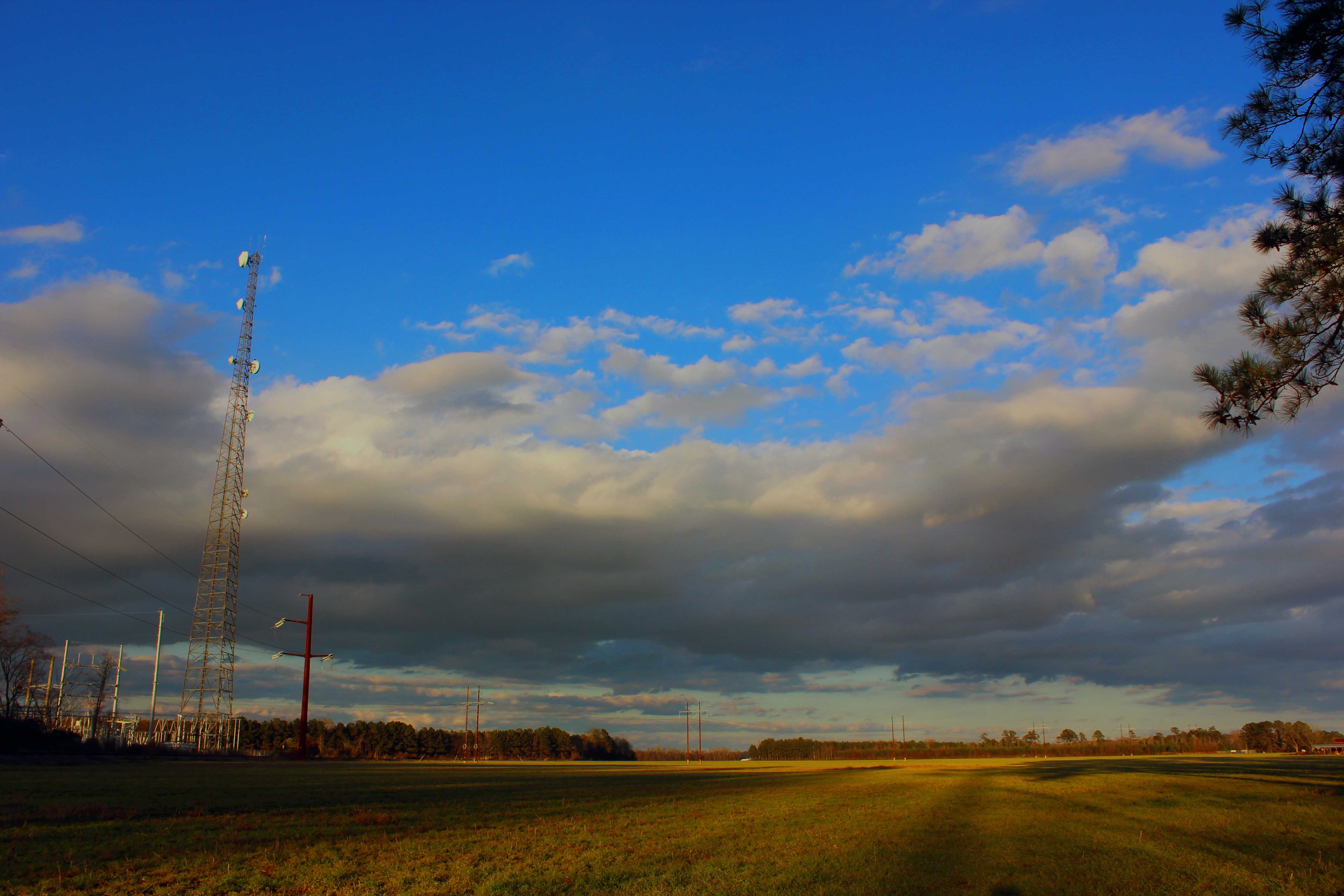 An out-of-season soybean field in Winfall, NC